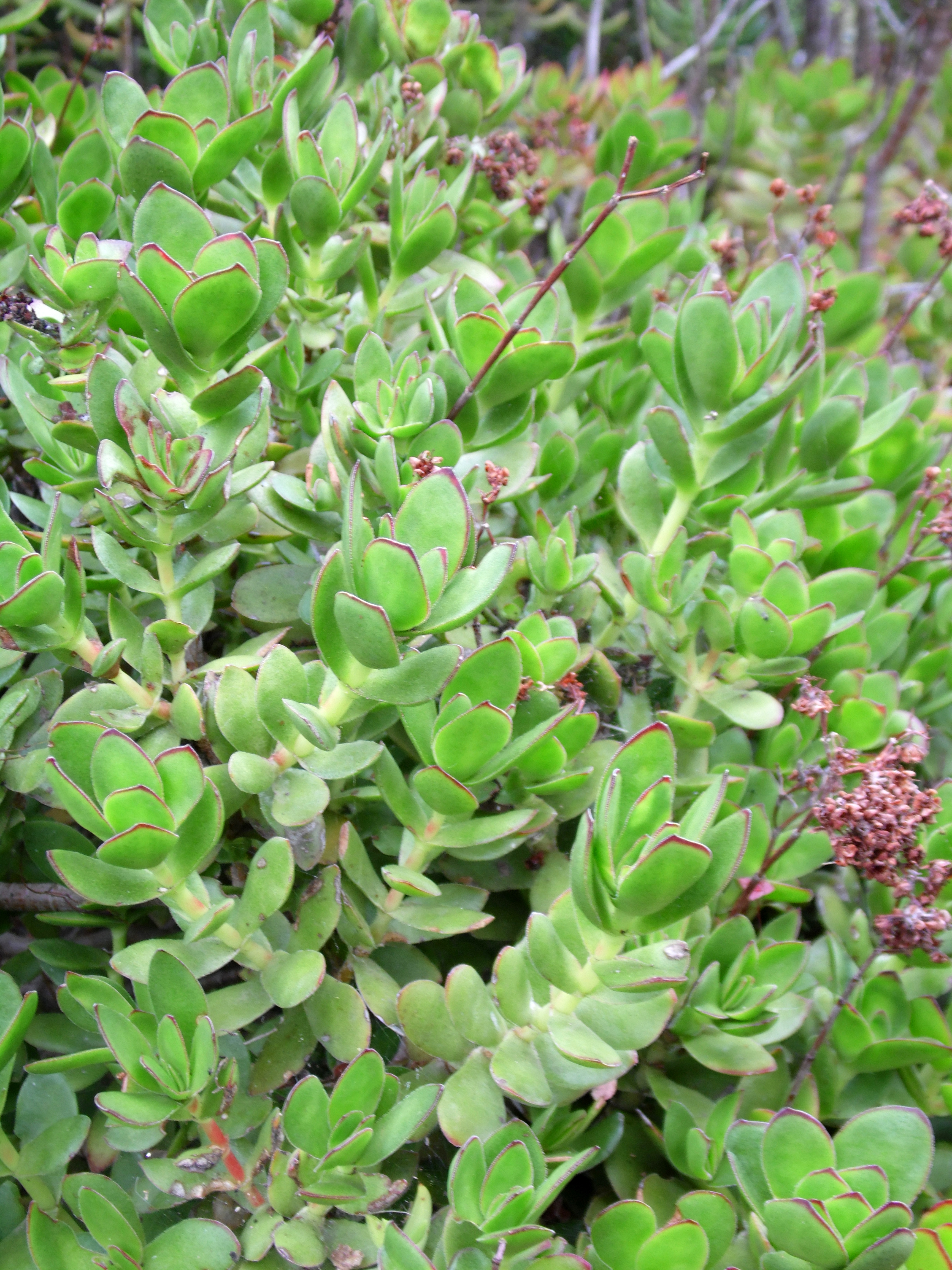 Crassula cultrata in Jardín Botánico Canario Viera y Clavijo